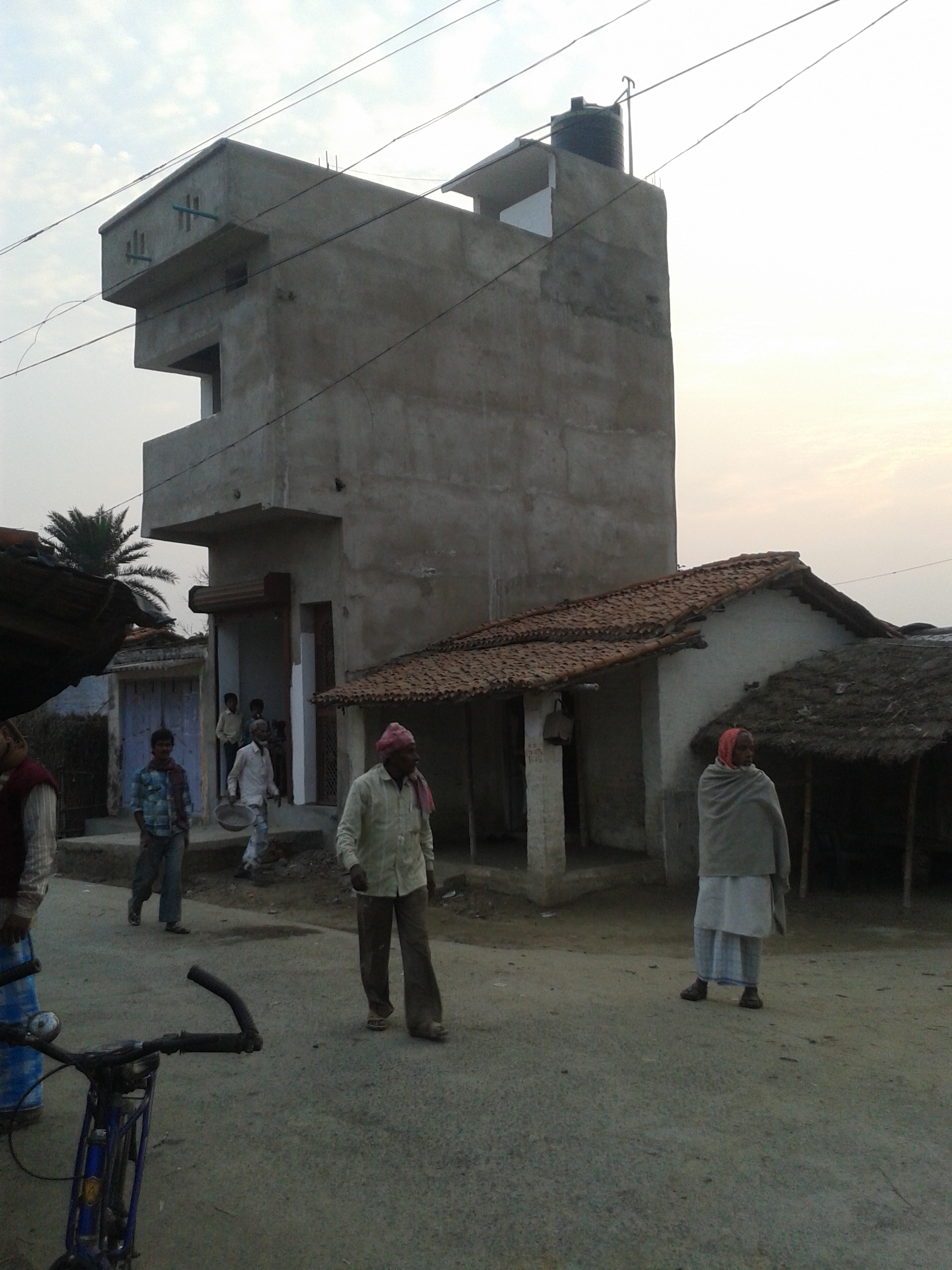 Madarsa chowk of dighiar upload by shamshad